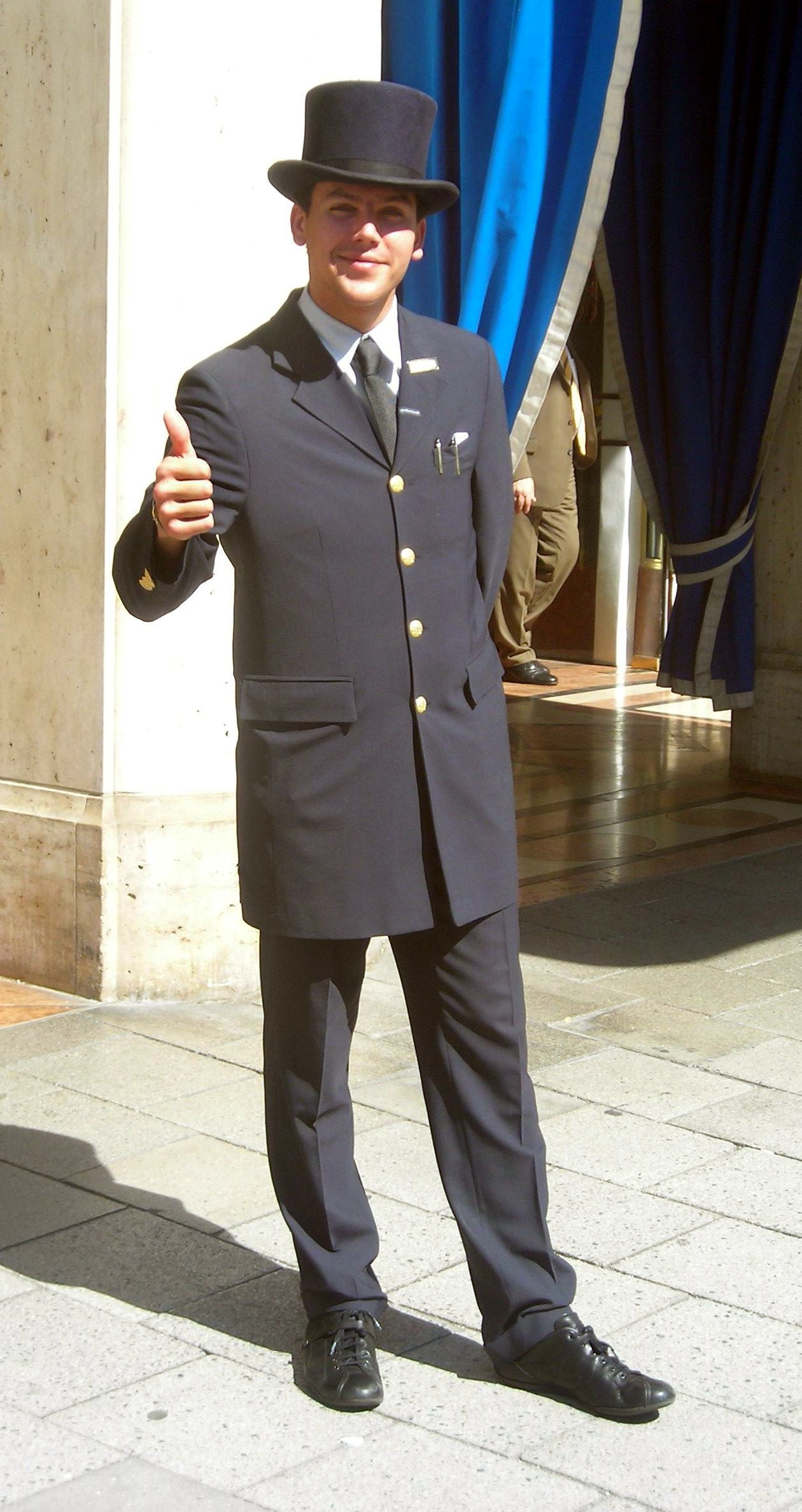 A Porter of a luxury hotel in Munich "thumbs up".